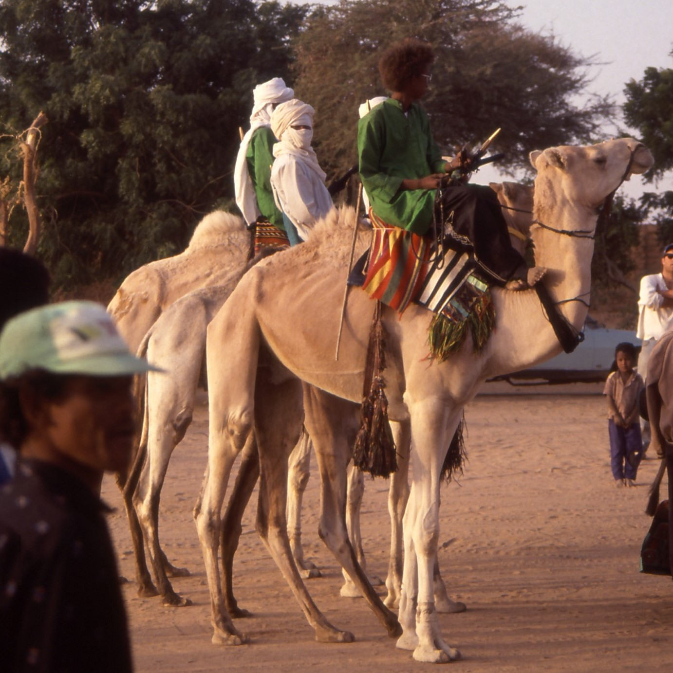 Tuareg with dromedaries in Agadez, Niger.